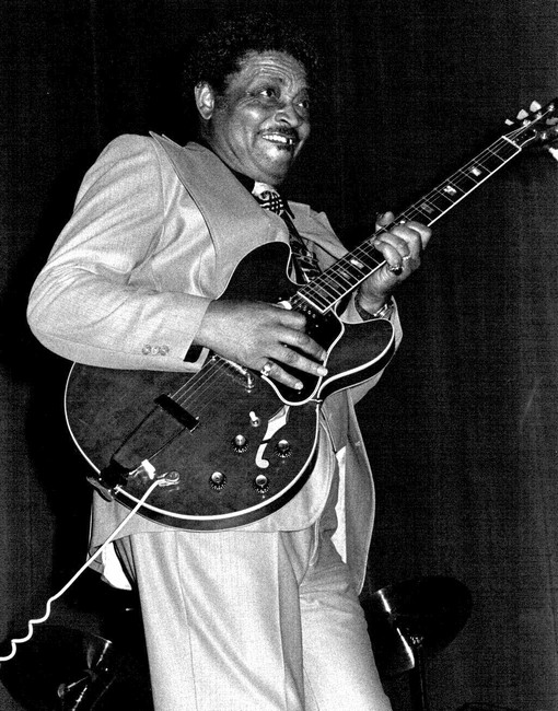 Blues guitarist Lowell Fulson in Paris France